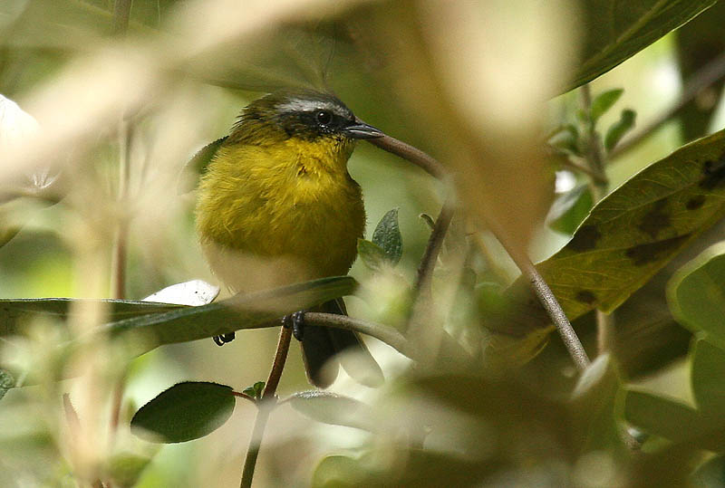 Superciliaried Hemispingus (Hemispingus superciliaris) at Cayambe-Coca Reserve, near Papallacta Pass, Ecuador.